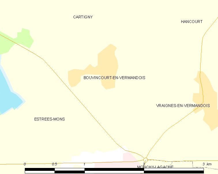 Map of French municipality Bouvincourt-en-Vermandois